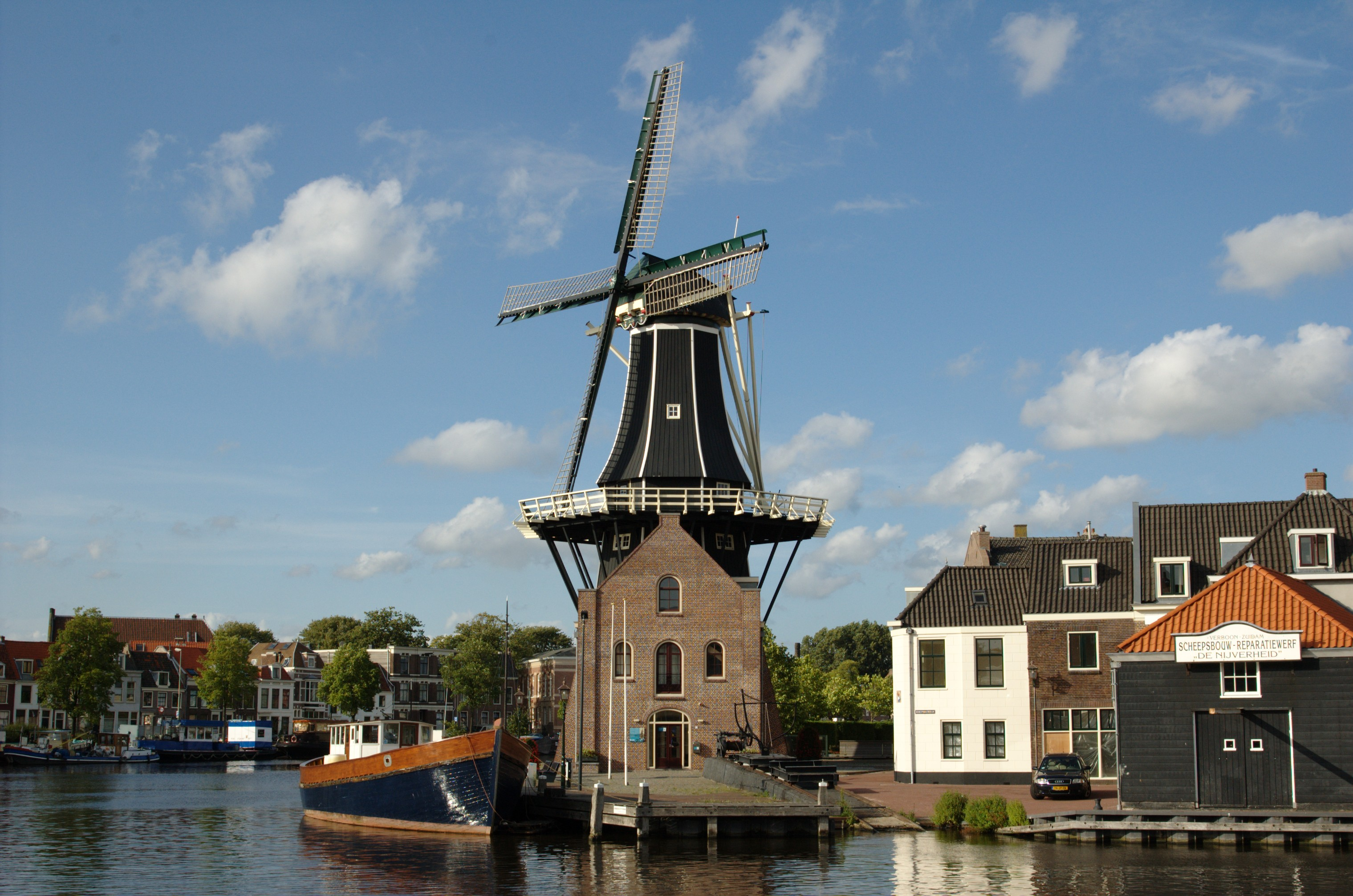 Windmill the Adriaan next to the river Spaarne in the centre of Haarlem